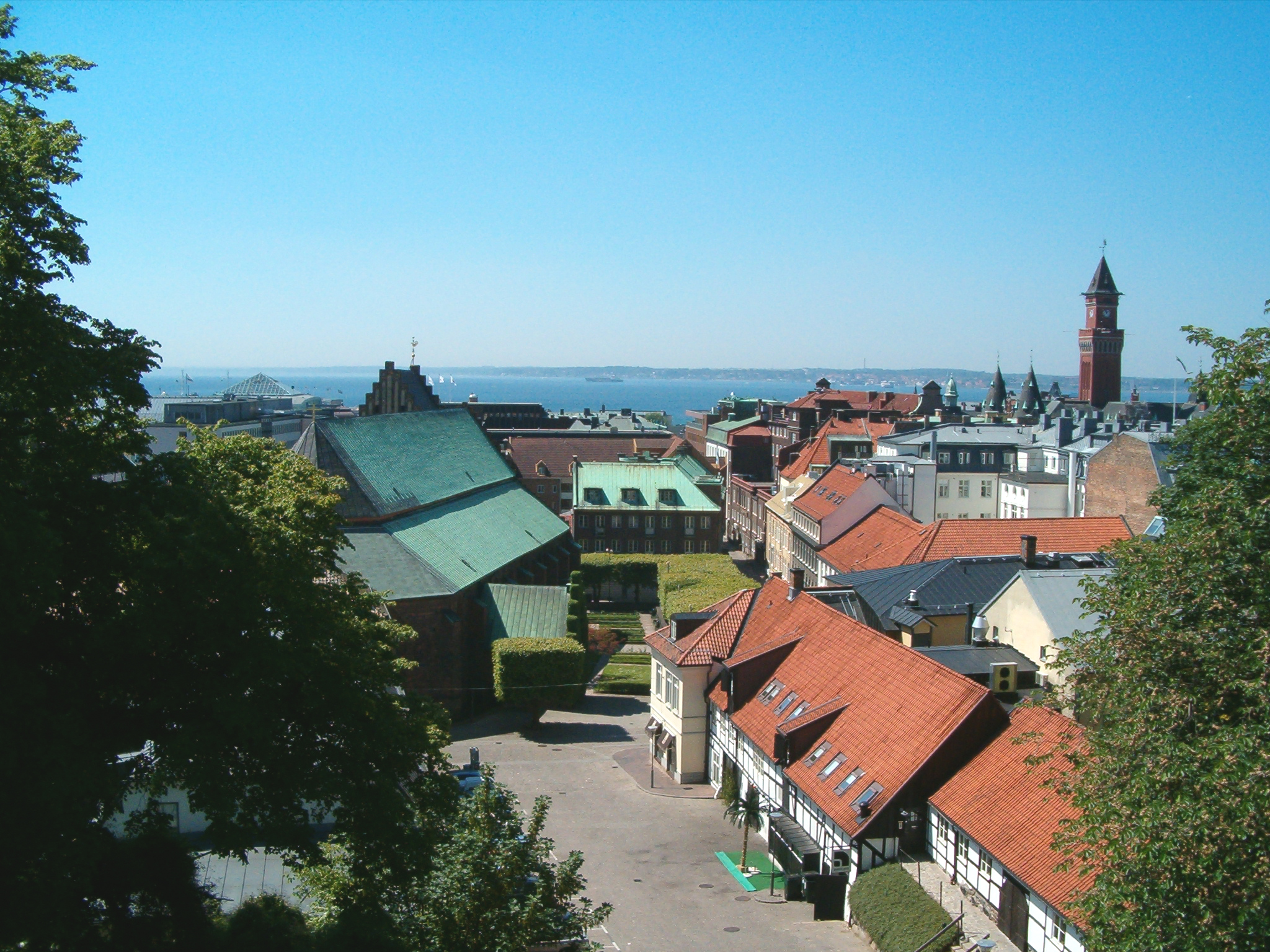 View from the Rose Garden in Helsingborg, Sweden.